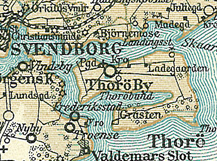 Map of the island Thuroe in Denmark